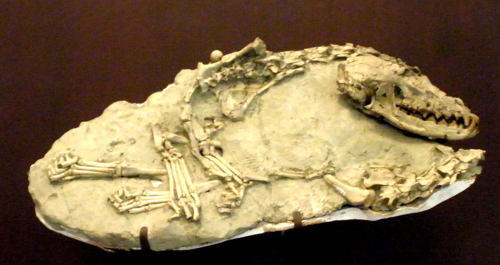 Skeleton of Eucyon davisi, a fossil canid